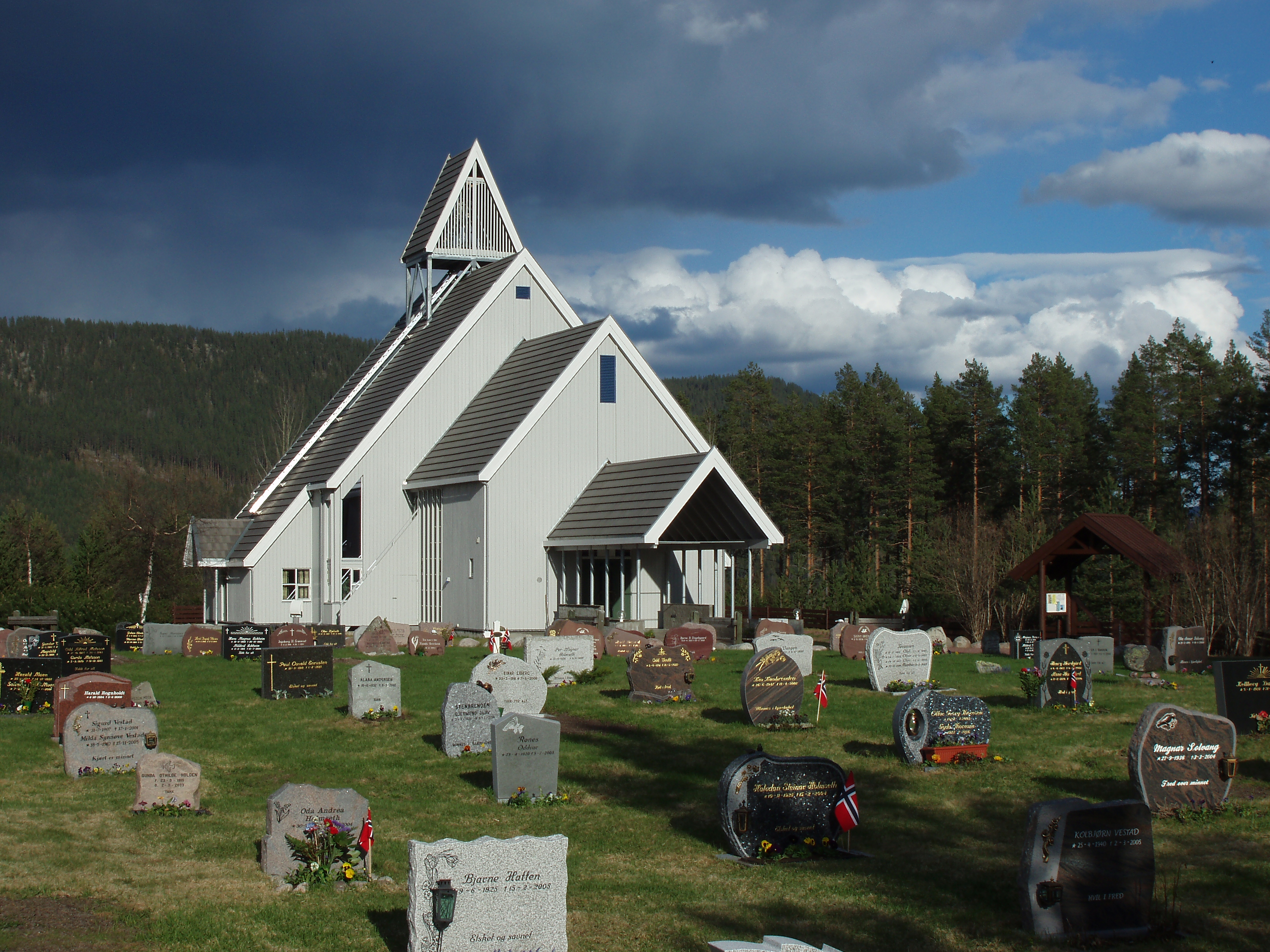 Nordre Trysil Church in Trysil municipality in Hedmark county in Norway.